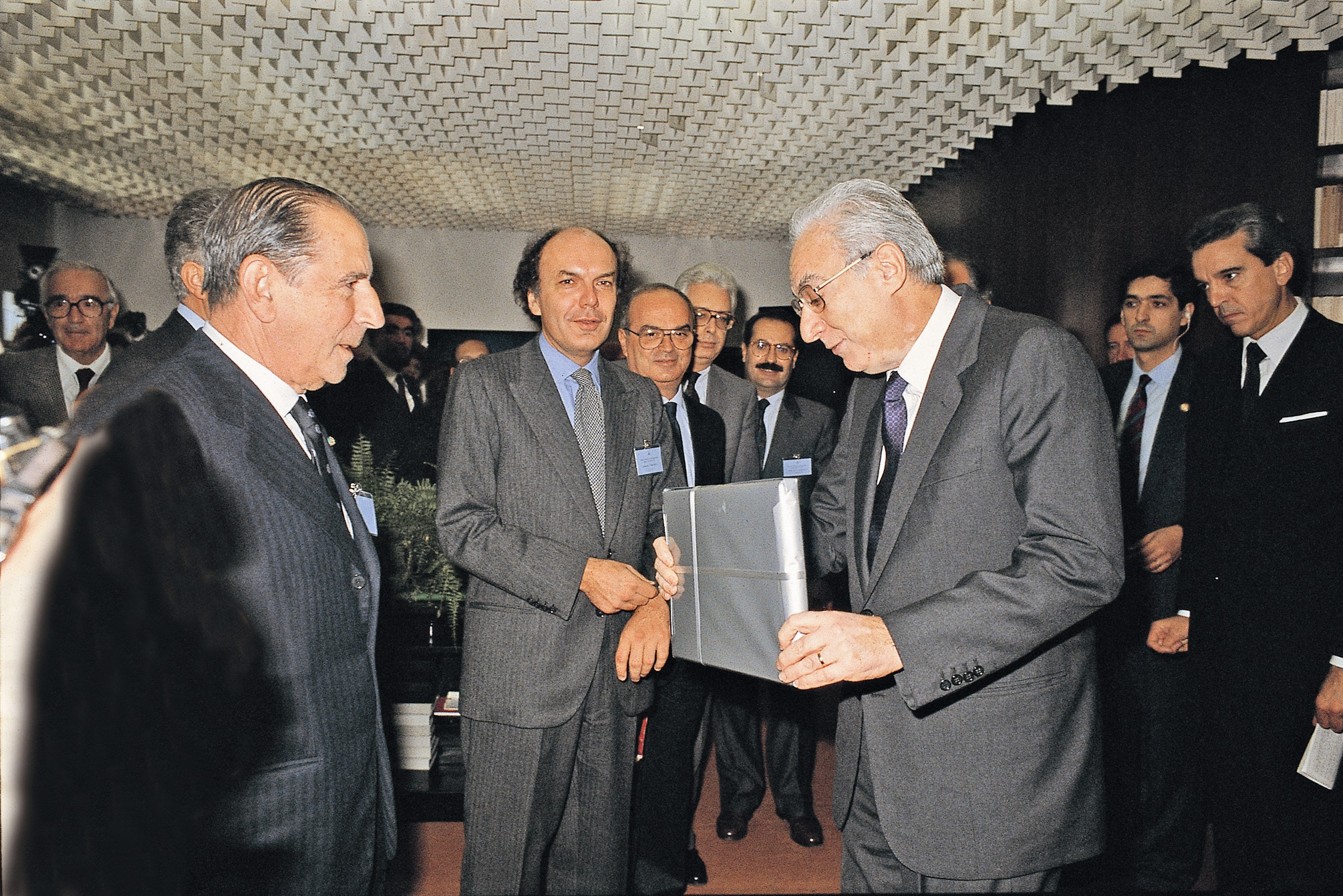 Italian publisher Leonardo Mondadori and Italian President Francesco Cossiga.